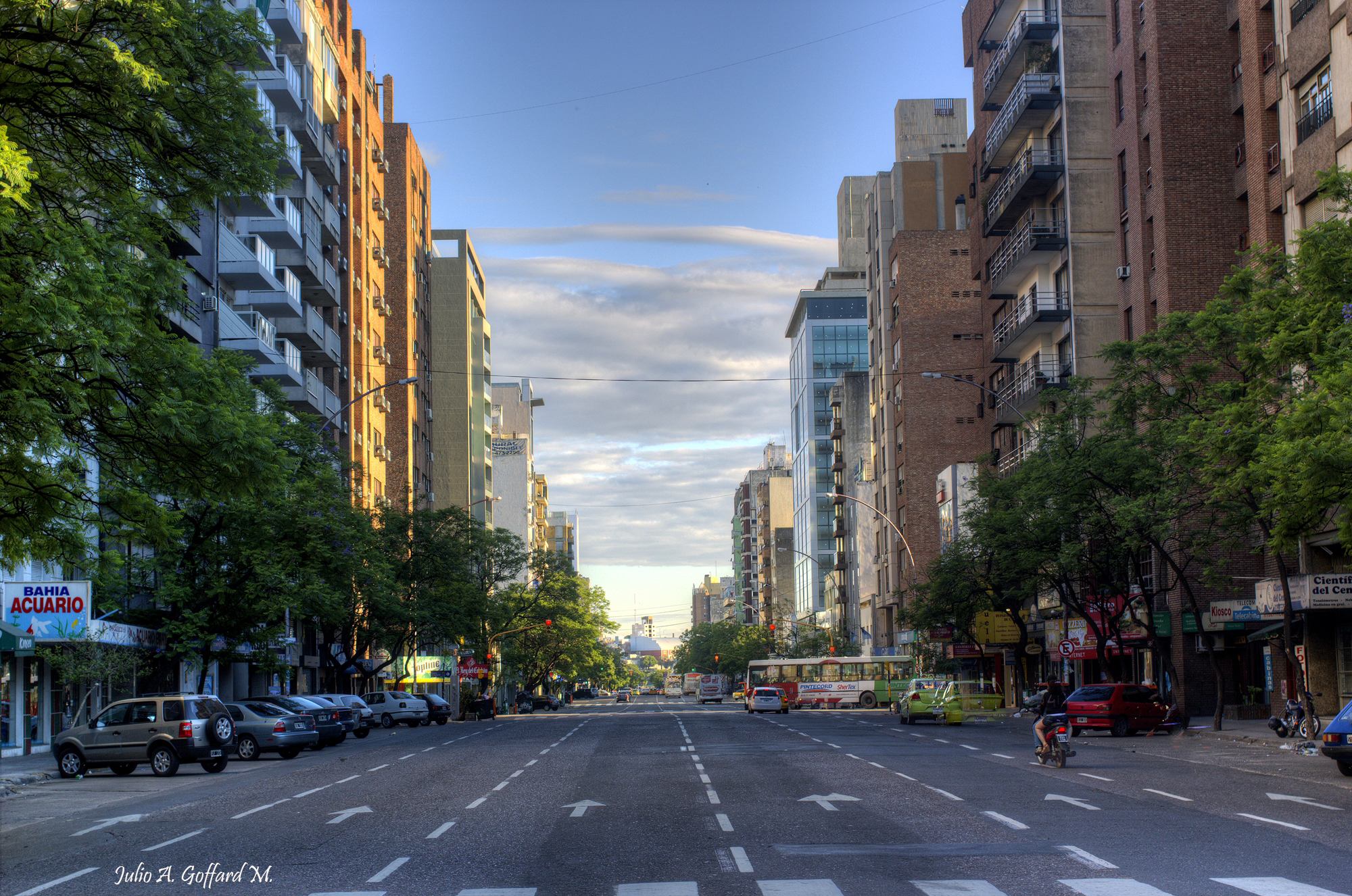 Chacabuco Avenue. Córdoba City, Argentina.